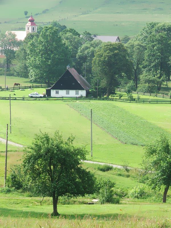 Village Stary Gierałtów (Lower Silesia, Poland).